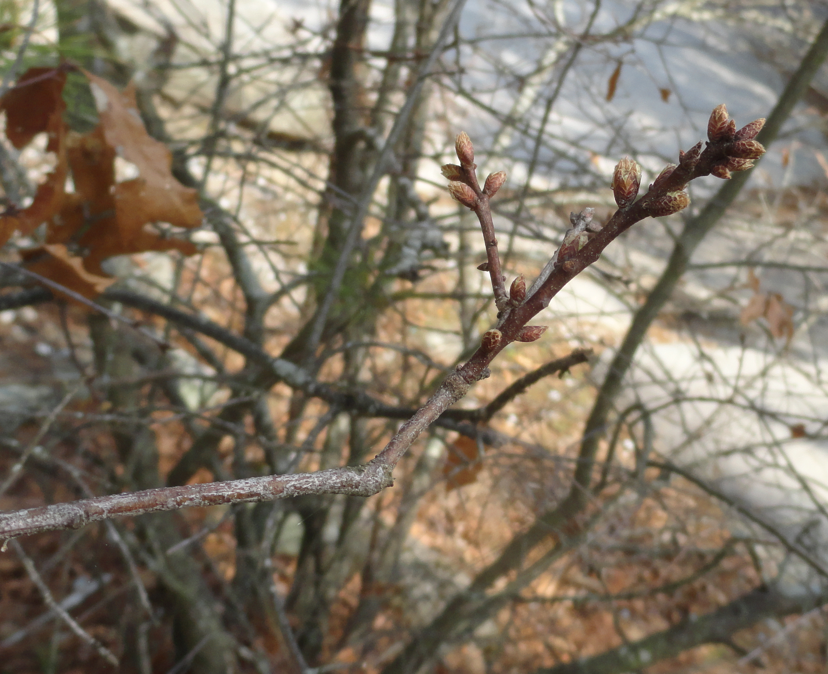 Quercus georgiana twig and buds in early spring, taken on the Walk Up Trail at Stone Mountain Park in Georgia, US